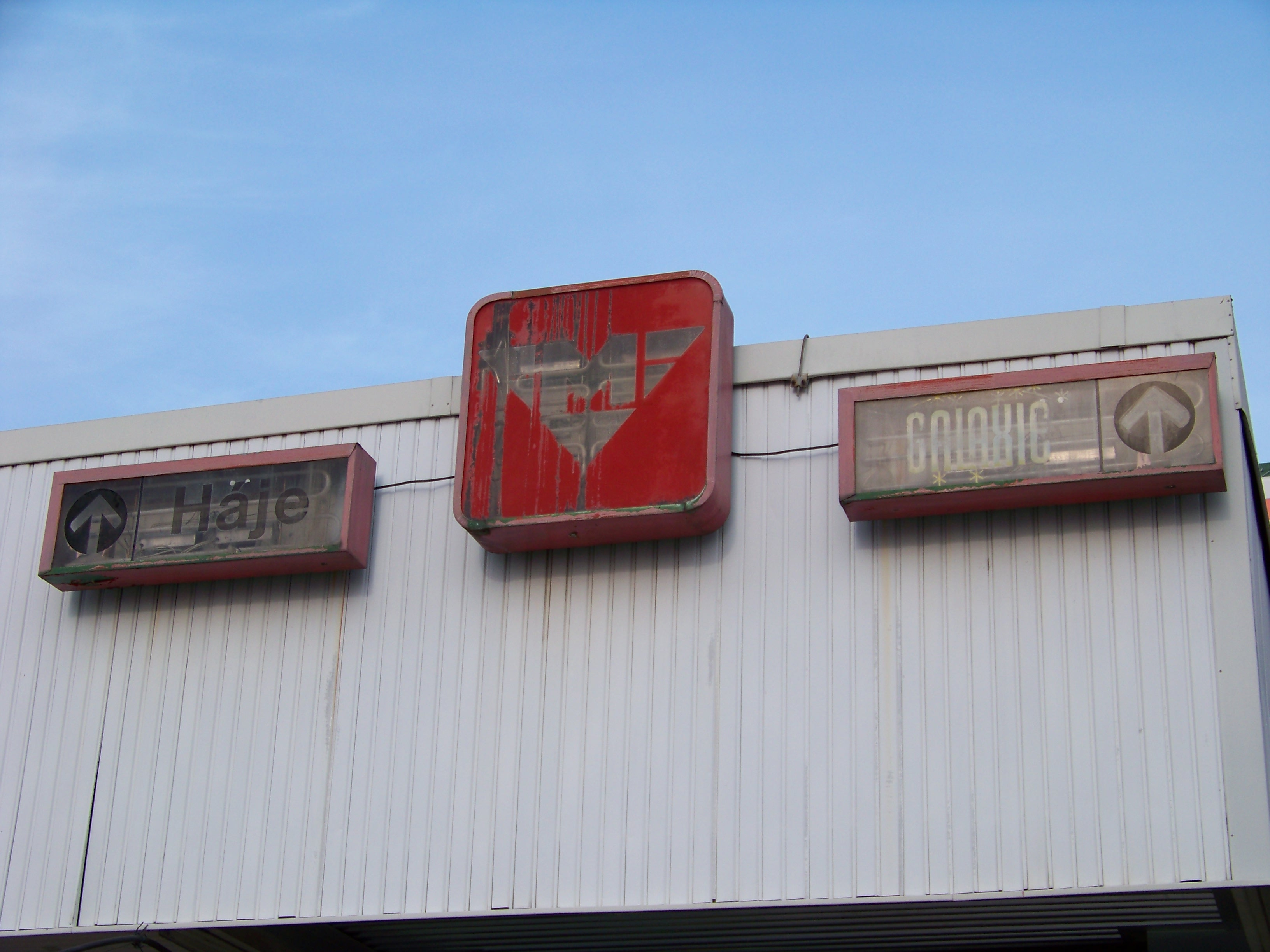 Háje, Prague, the Czech Republic. Signs near the Kosmonautů Square.